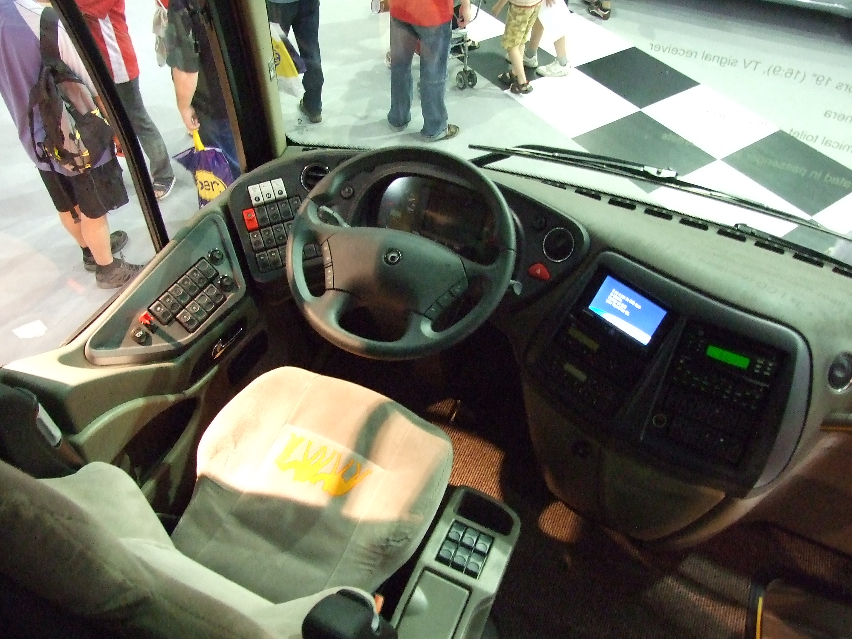 Irisbus Magelys Drivers cab at Brno 2008 Autotec fairhelp